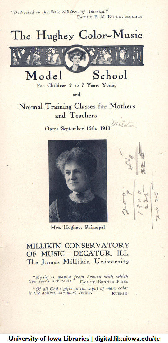 Title The Hugey Color-Music Model School Date Original 1912 Topical Subject (LCSH) Pianists Singers Violinists Music Personal Name Subject Price, Fannie Bonner Chronological Subject 1910-1920 Type (DCMIType) Text Still image Type (AAT) Brochures Promotional materials Type (IMT) jpeg Digital Collection Traveling Culture: Circuit Chautauqua in the Twentieth Century Contributing Institution University of Iowa. Libraries. Special Collections Dept. Archival Collection Redpath Chautauqua Collection Subcollection Chautauqua Brochures Collection Guide Collection Identifier MSC0150 Rights Management Material in the public domain. No restrictions on use. Contact Information Contact the Special Collections Dept. at The University of Iowa Libraries: Height (cm) 19 Number of Pages 12 Digitization Specifications Scanned at 600 dpi, 32-bit color. Master image available in tiff format. Date Digital 2001